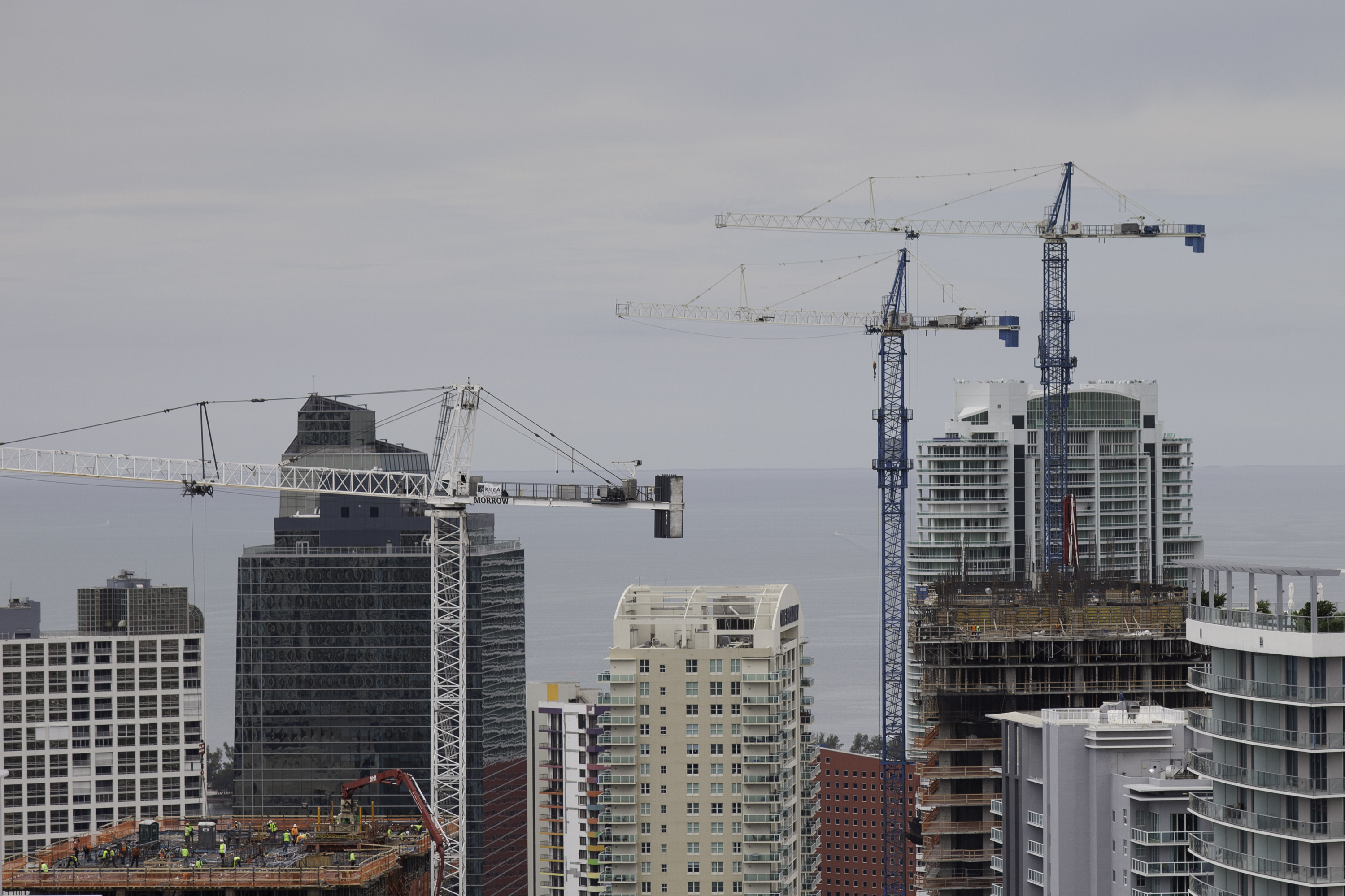 Brickell, Miami, Florida